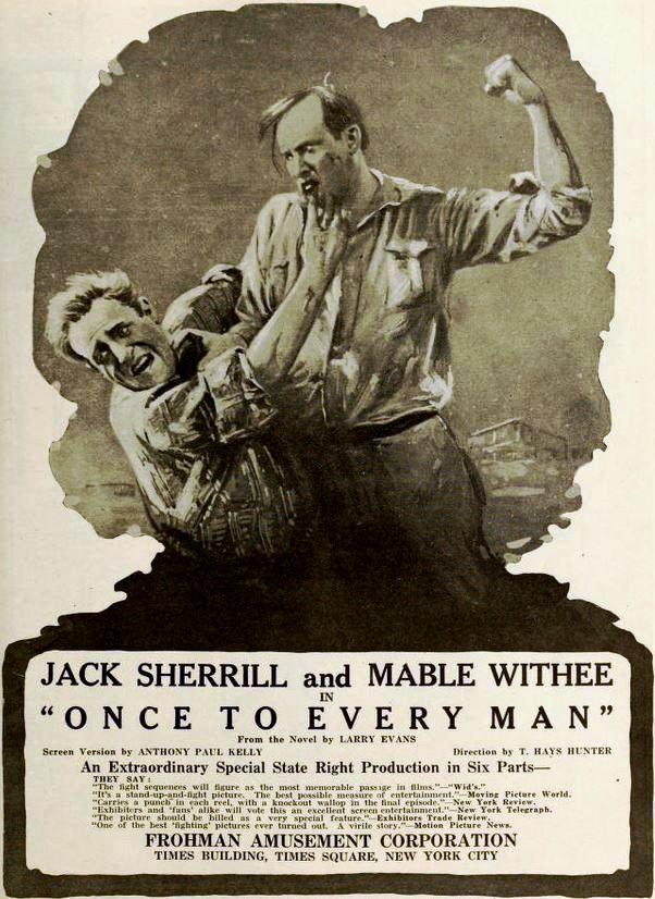 Ad for the American film Once to Every Man (1918) with Jack Sherrill, on page 975 of the February 22, 1919 Moving Picture World.